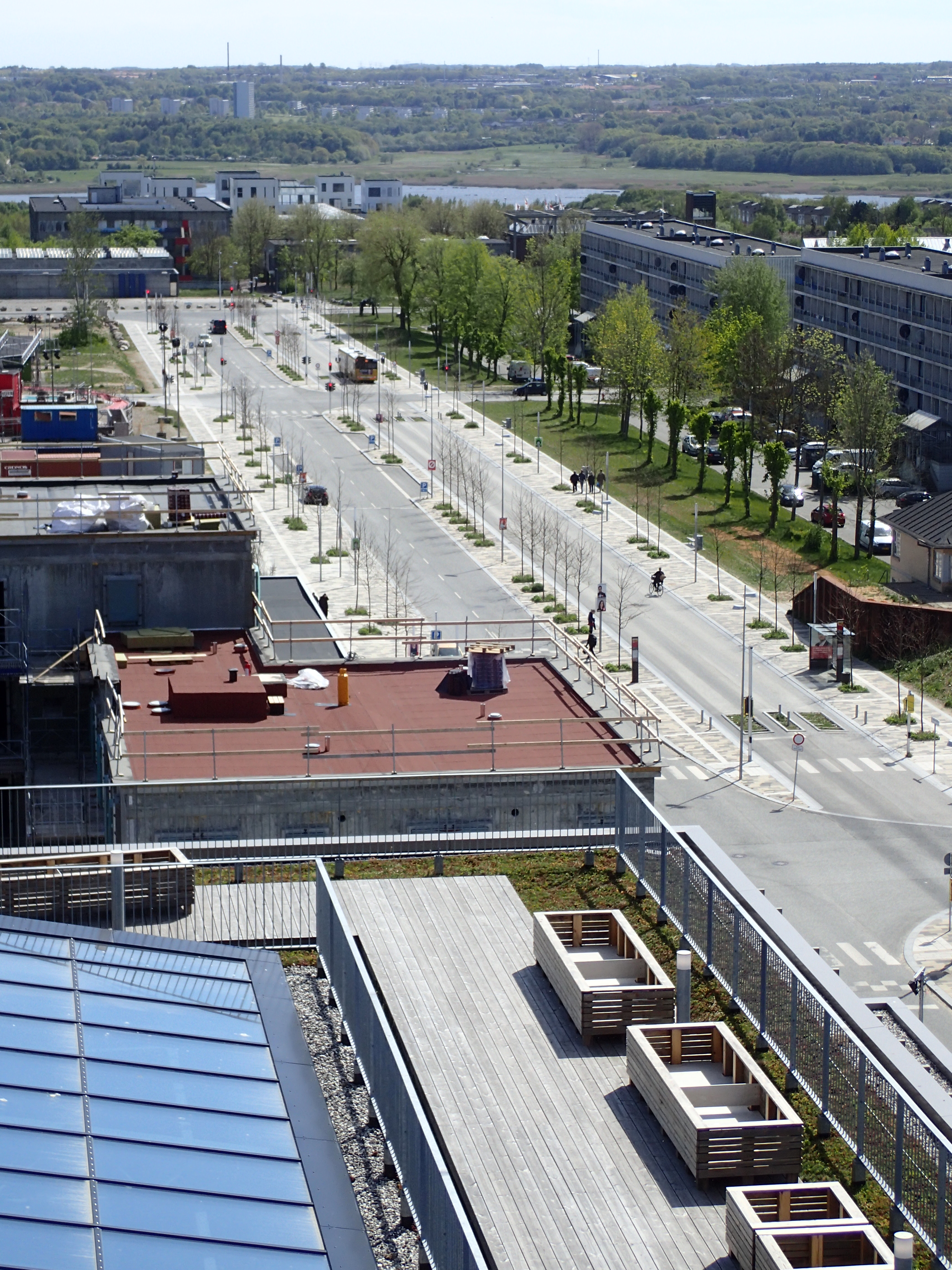 Karen Blixens Boulevard.